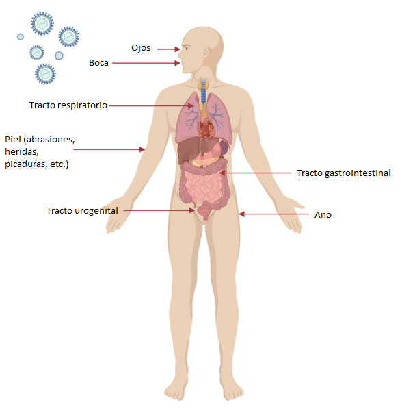 Typical sites of virus entry in spanish